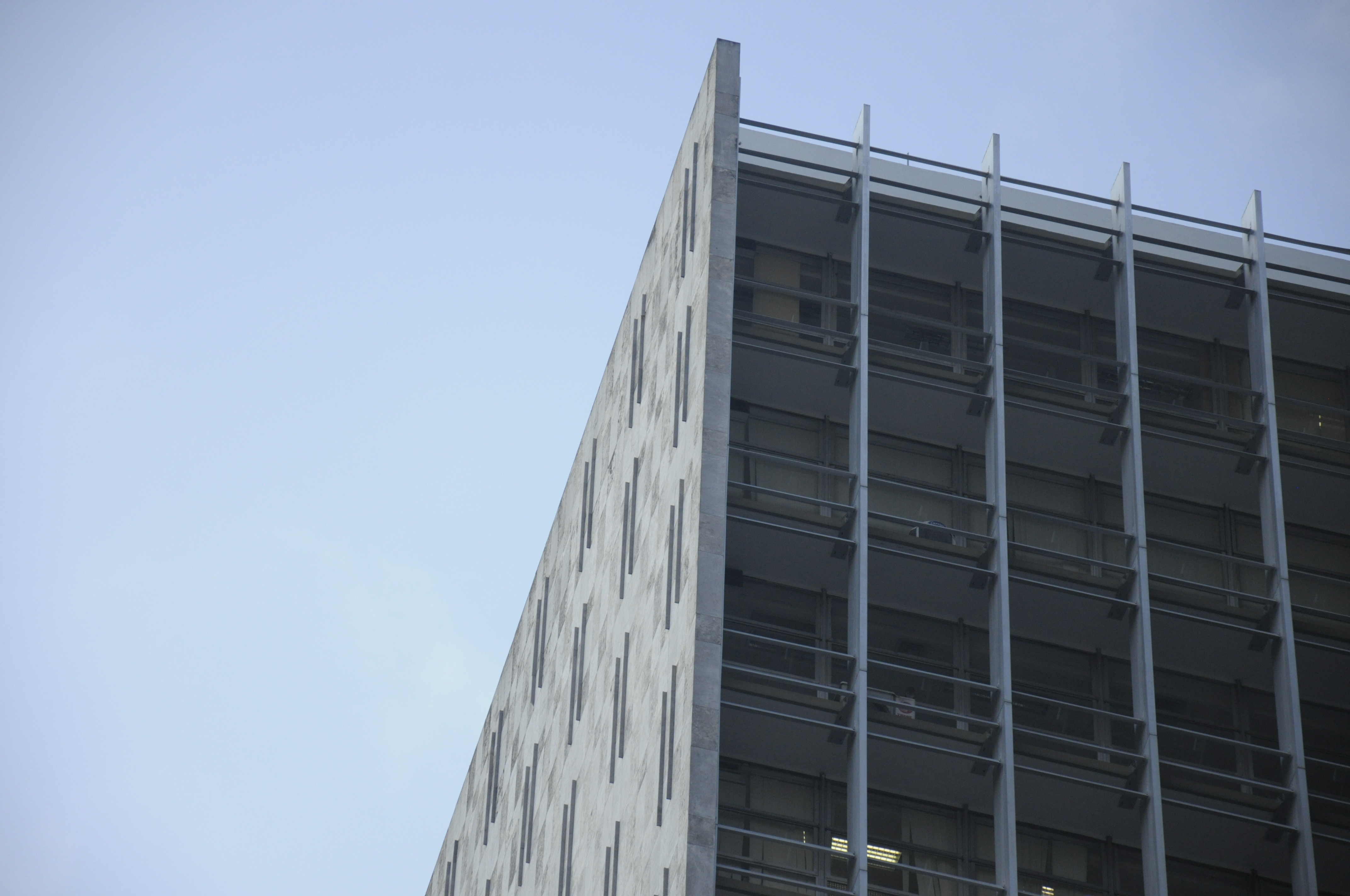 Parte superior do Edifício Banco Sul Americano - São Paulo (SP), Brasil